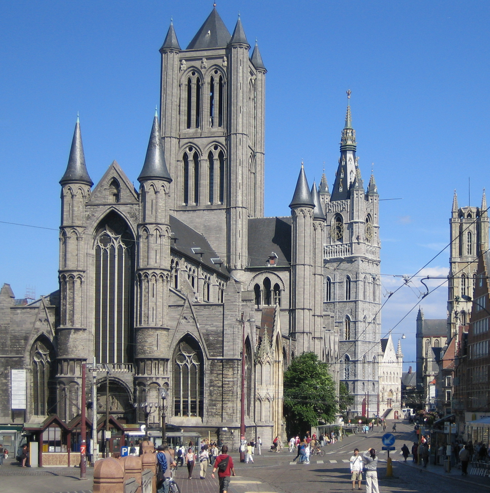 St. Nicholas' Church, Ghent, Belgium.